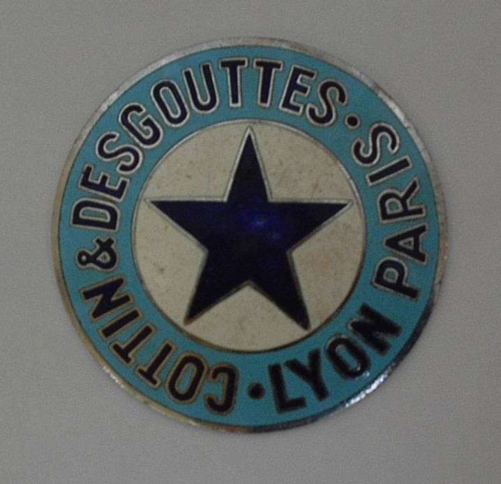 Picture of original Cottin & Desgouttes logo